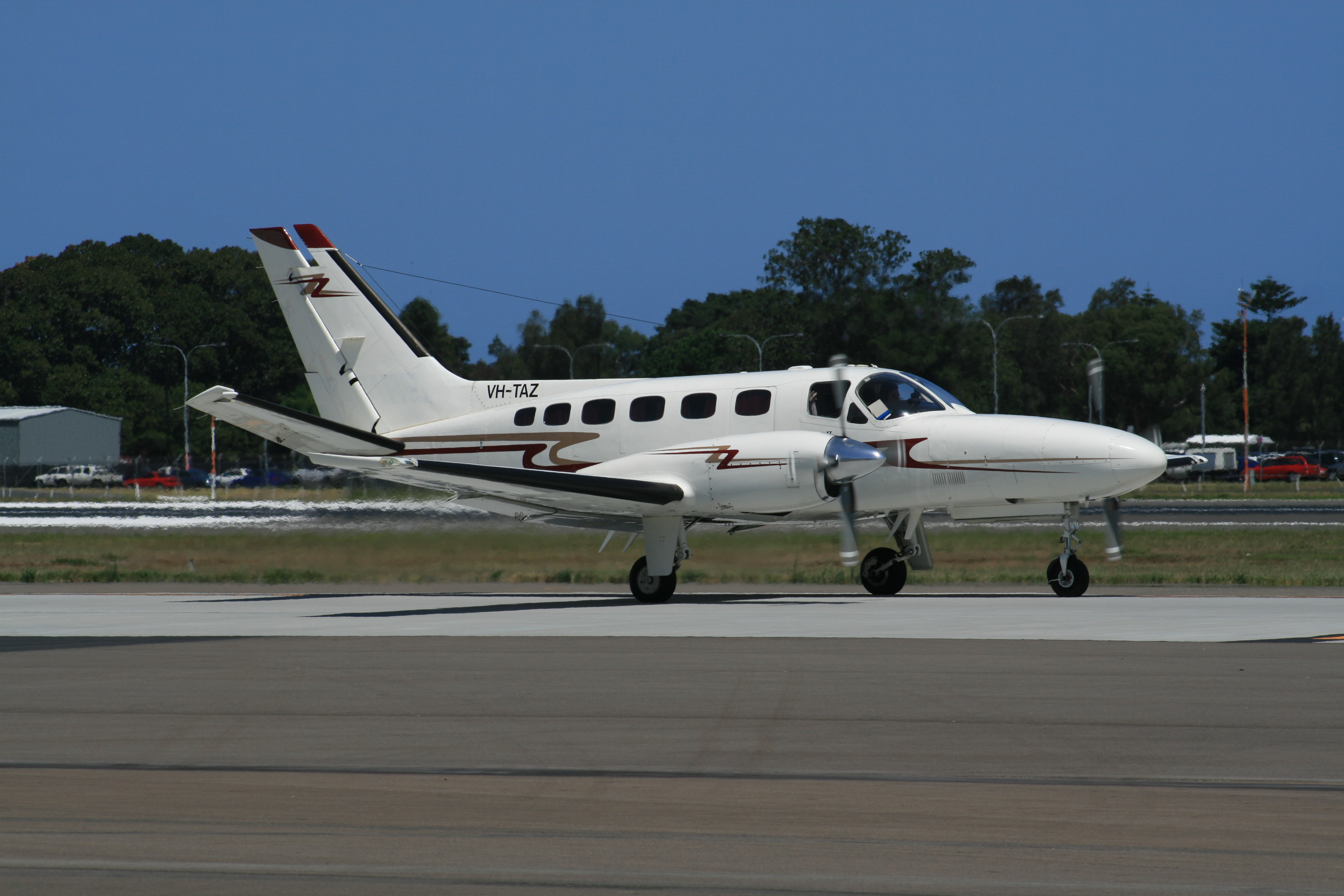 Cessna 441 Conquest II used by Tasair for charter services. Digital photo of VH-TAZ taken at Sydney Airport on 11 January 2008 by YSSYguy for use in the Tasair article